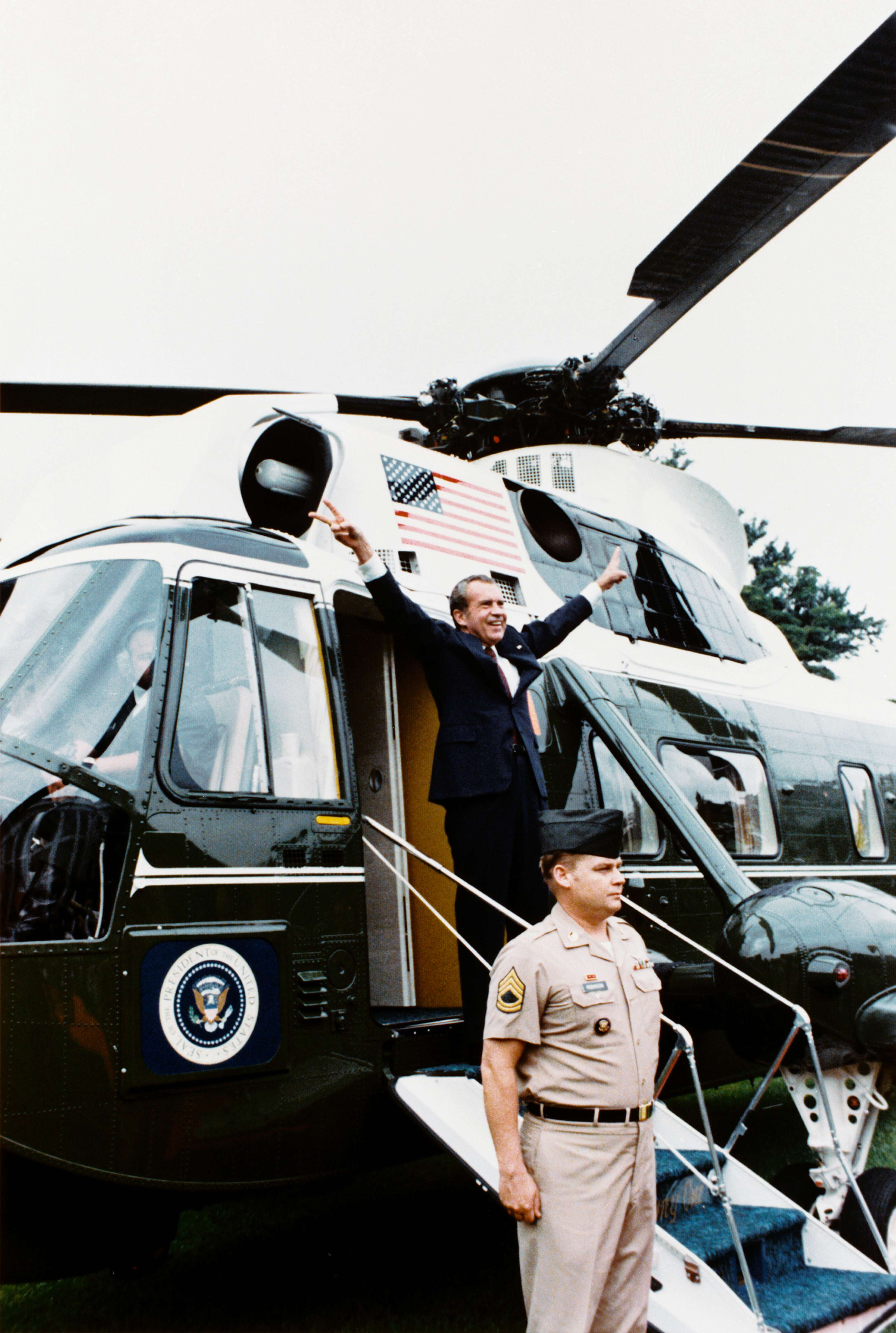 Richard Nixon boarding Army One upon his departure from the White House after resigning the office of President of the United States following the Watergate Scandal in 1974.